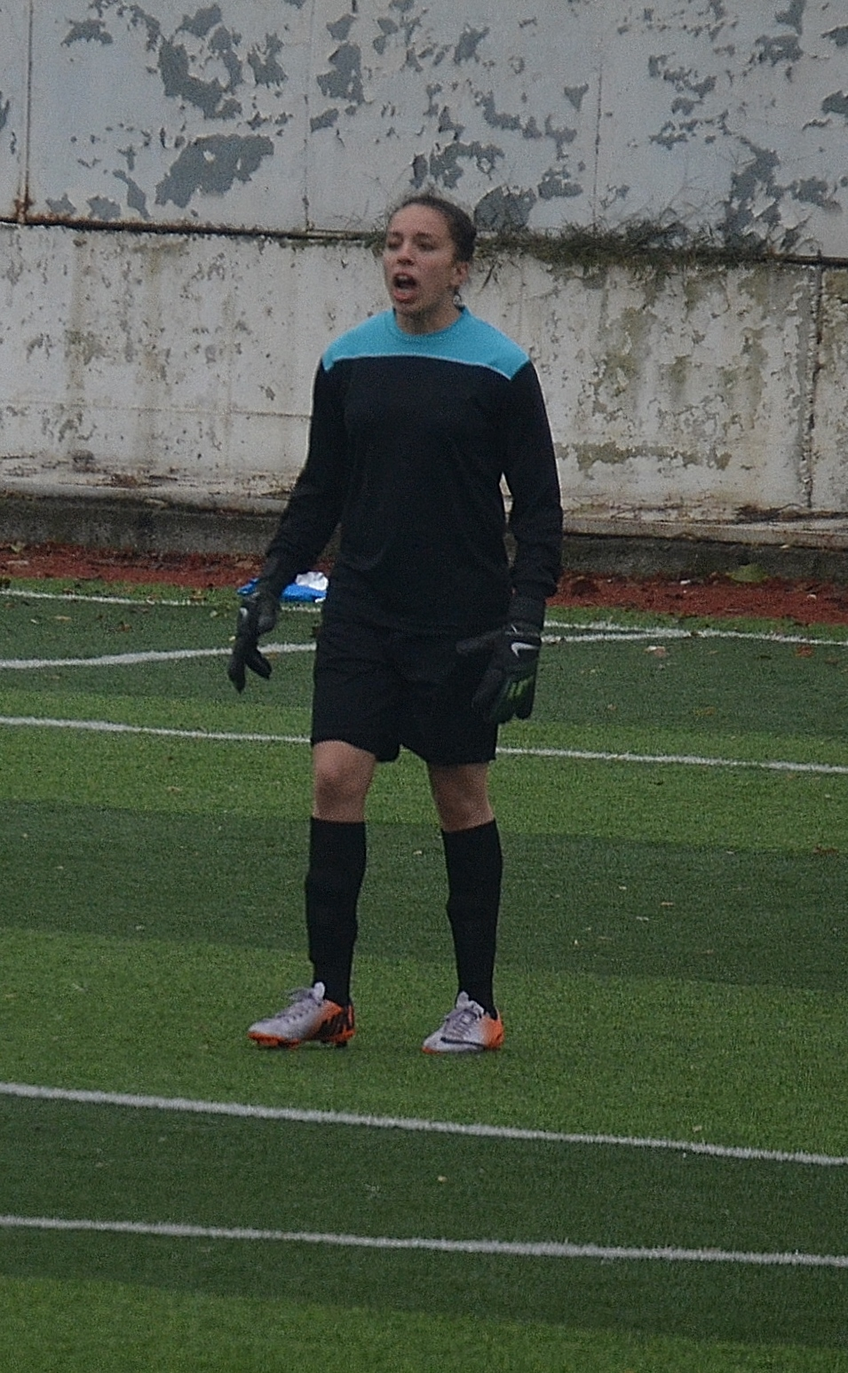 Meryem Koç for Adana İdmanyurduspor in the 2014-15 season